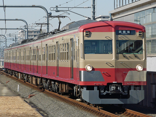 A Seibu 101 series EMU specially repainted in old-style livery